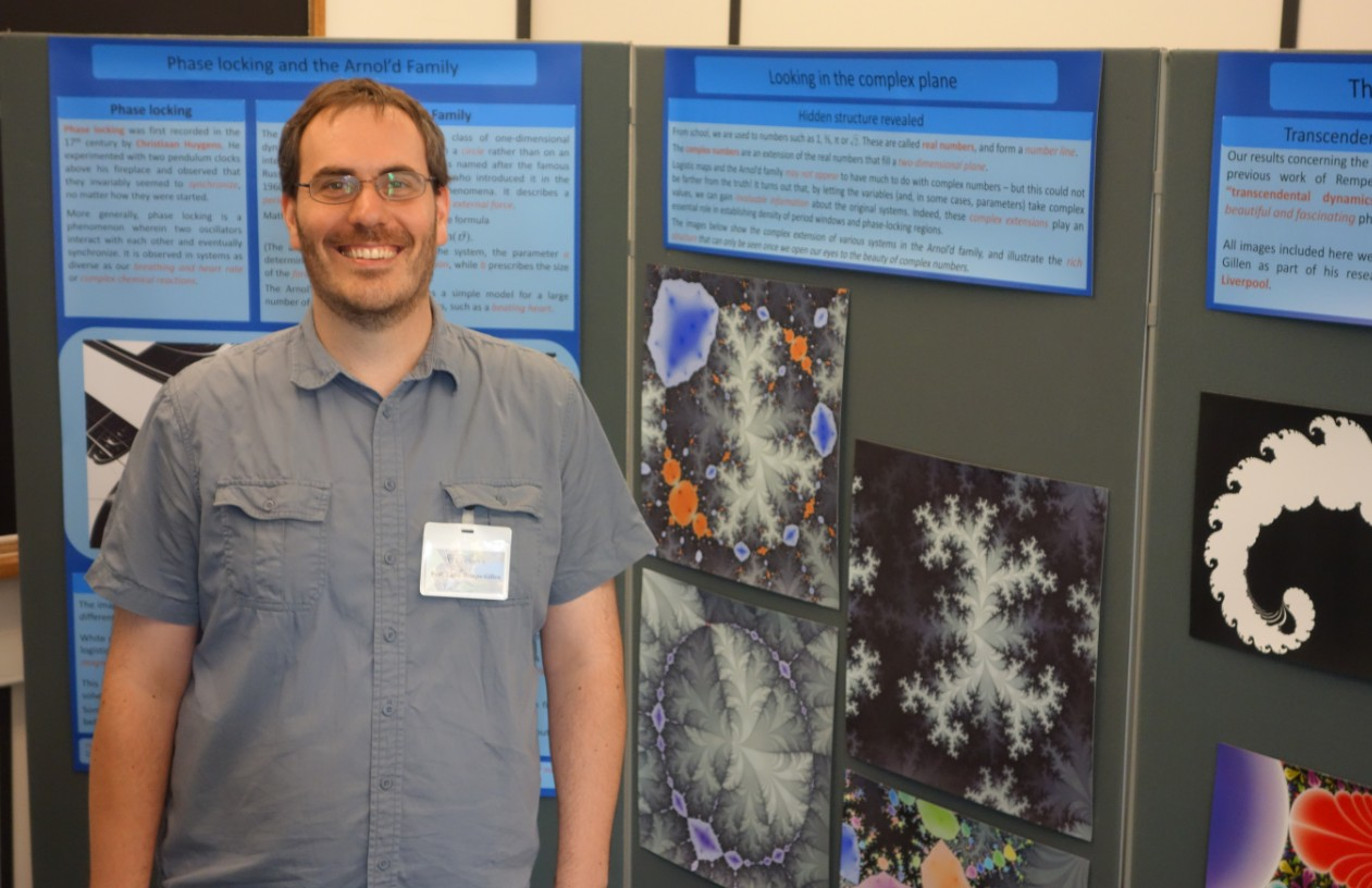 Lasse Rempe-Gillen at the exhibit "Dynamical Systems and Chaos: The Arnold Family" at the IMA's Festival of Mathematics and its Applications, University of Manchester, July 2014.